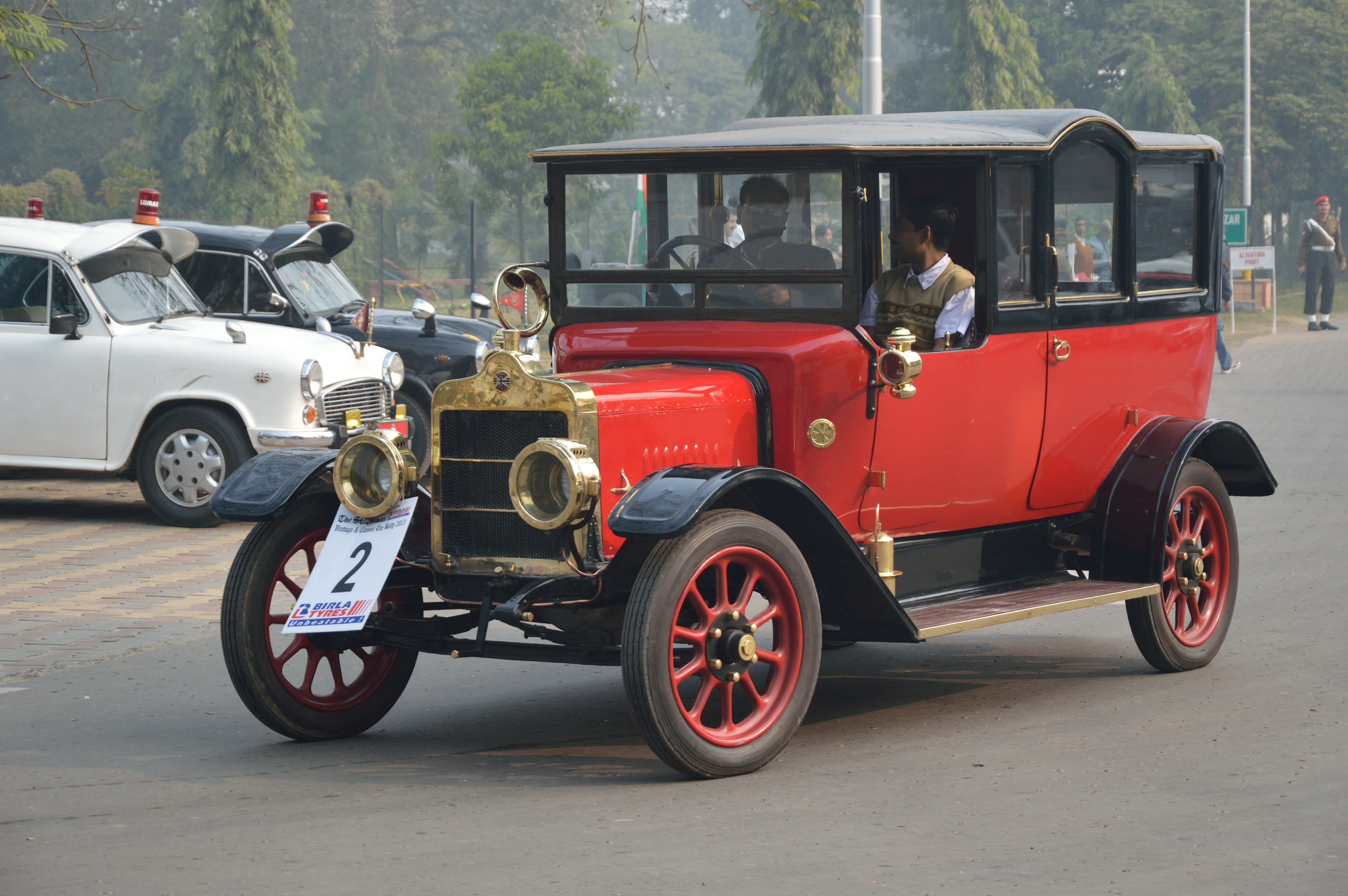 This car was exhibited and ran during ‘The Statesman Vintage & Classic Car Rally 2013’ from the Eastern Command Sports Stadium of Fort William, Kolkata to the same via: Rabindra Sadan, Esplanade, Central avenue, Bhupen Bose avenue, Shaymbazaar five points crossing, APC Roy road, AGC Bose road Park Circus seven points, Gariahat flyover, Gol park, Rabindra Sarover, SP Mukherjee road, Hazra Road, Alipore road and Strand road, the route covers 31.32 km. The rally was held at chilled morning on 13 January 2013 at the ECS Stadium, where 170 entrants were participated with cars and bikes manufactured from 1906 to 1978. This one day festival takes place on the second Sunday of every January in Kolkata since 1968 with full of period costume and cultural period pieces.